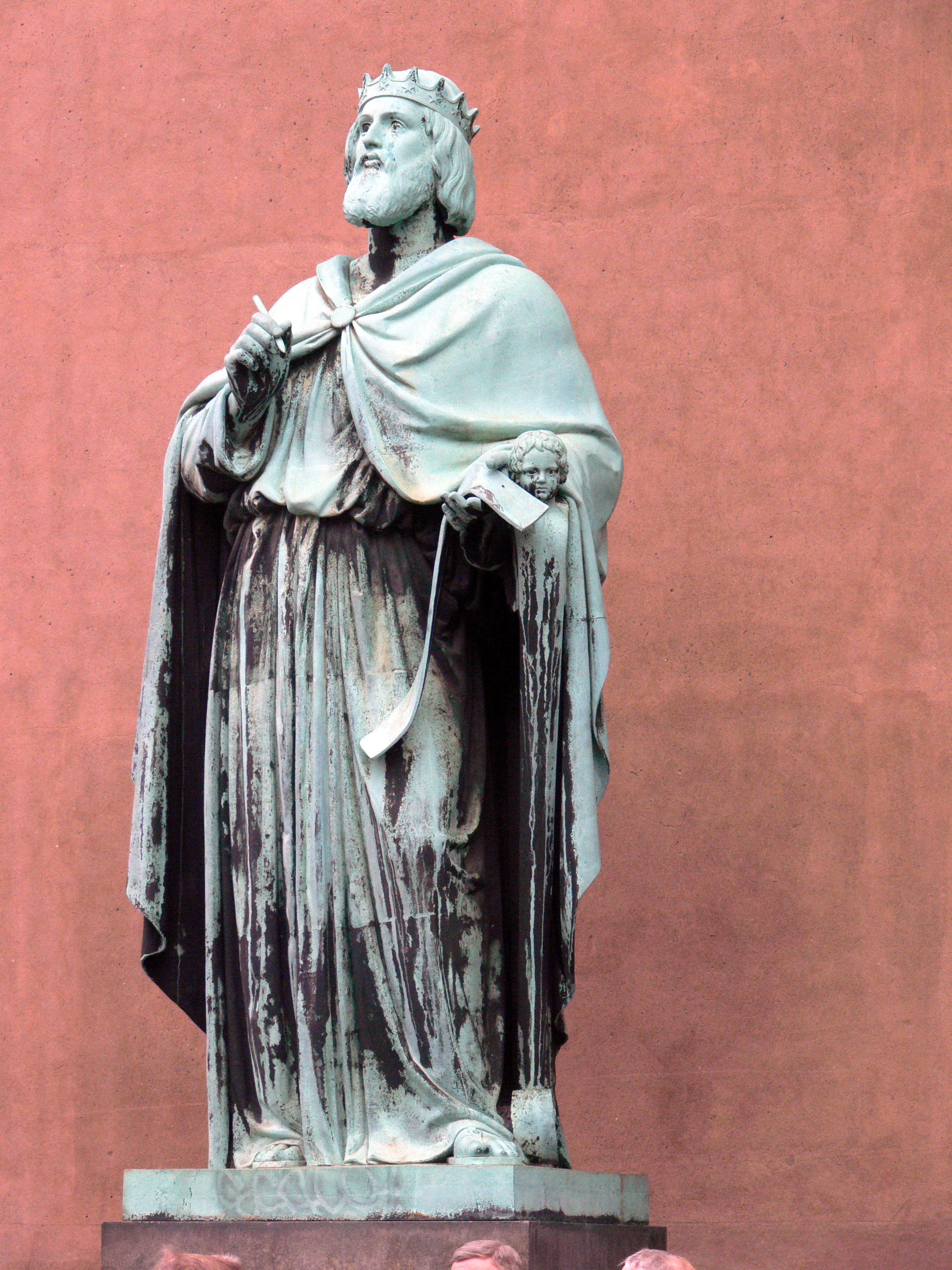 Statue of King David, located at the front of Vor Frue Kirke (Copenhagen Cathedral), Copenhagen, Denmark